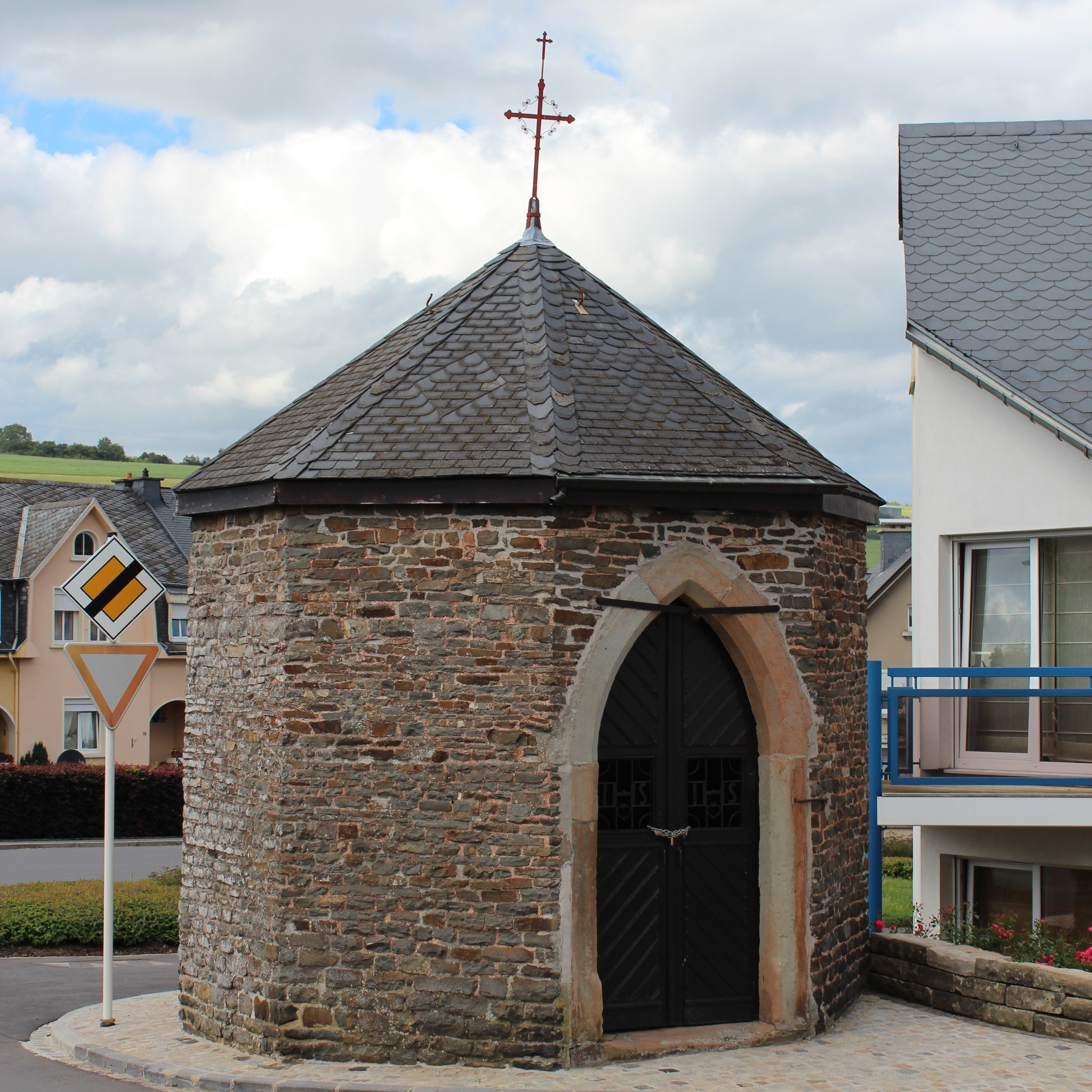 Chapel in Weidingen, Wiltz, Luxembourg. Inventaire supplémentaire of cultural heritage monuments.